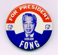 Hiram Fong was the first and only Chinese American to have served in the United States Senate and also the first Asian American to have launched a primary presidential campaign in a major political party. Note: Due to the Chinese (Taishan) dialect, his named was transliterated to Fong.